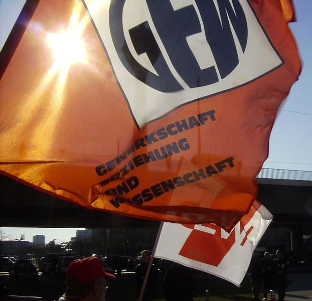 In the nineties, GEW changed their Logo. Picture of banners with old and new logo, new one in the Background, at a union protest in Duesseldorf.